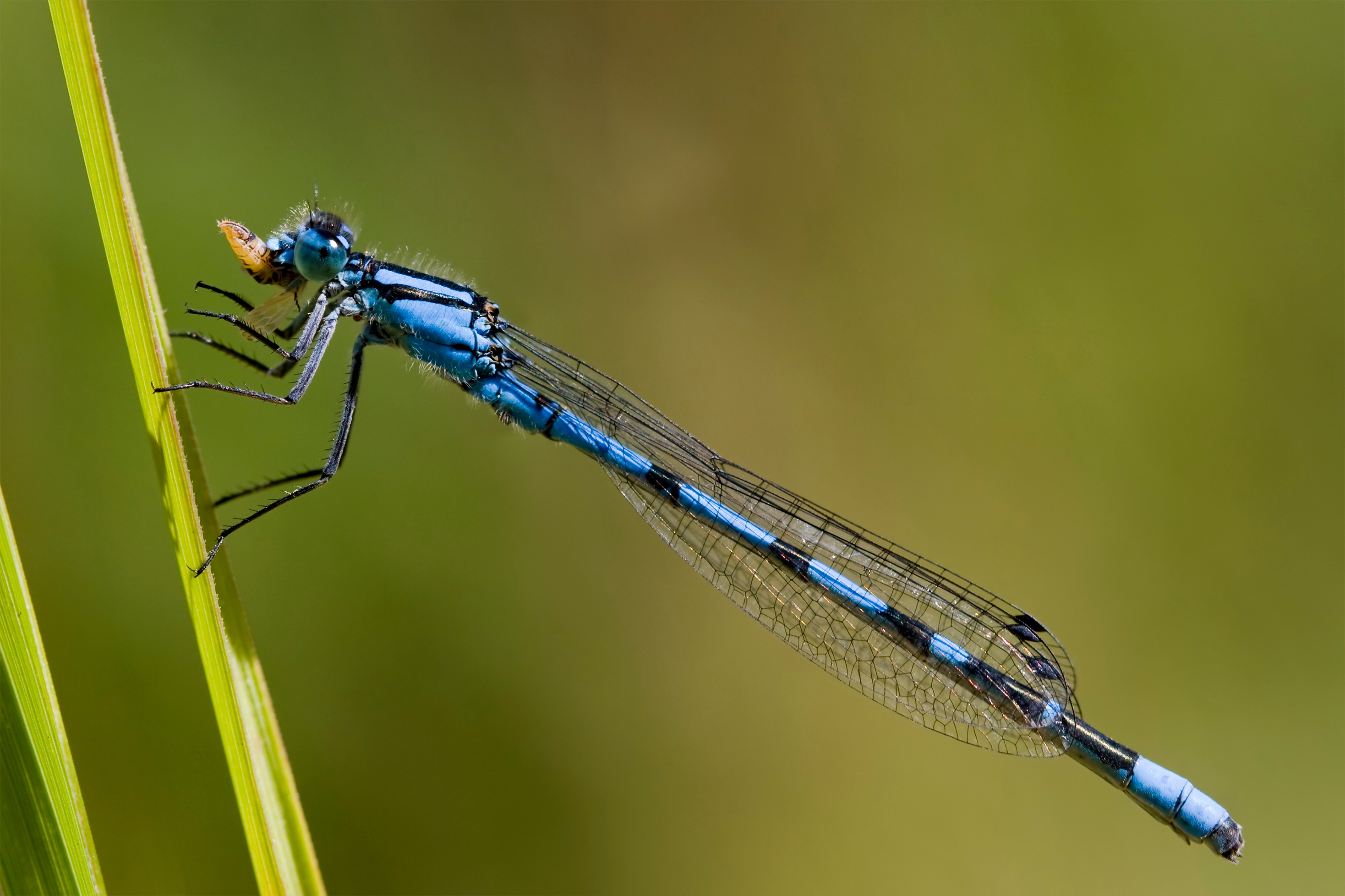 A male of the Common Blue Damselfly (Enallagma cyathigerum) in the Ahlenmoor, a peatland in northern Lower Saxony, Germany. The photo is part of a sequence that shows the complete consumption of a cicada by the damselfly. The entire process takes not much longer than four minutes.